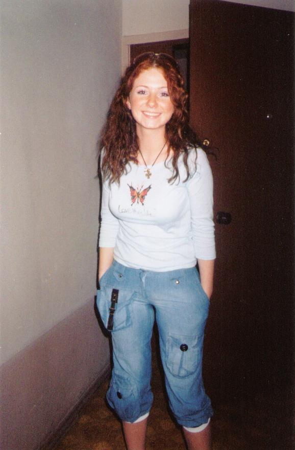 Lena Katina, one half of the Russian pop group, t.A.T.u..